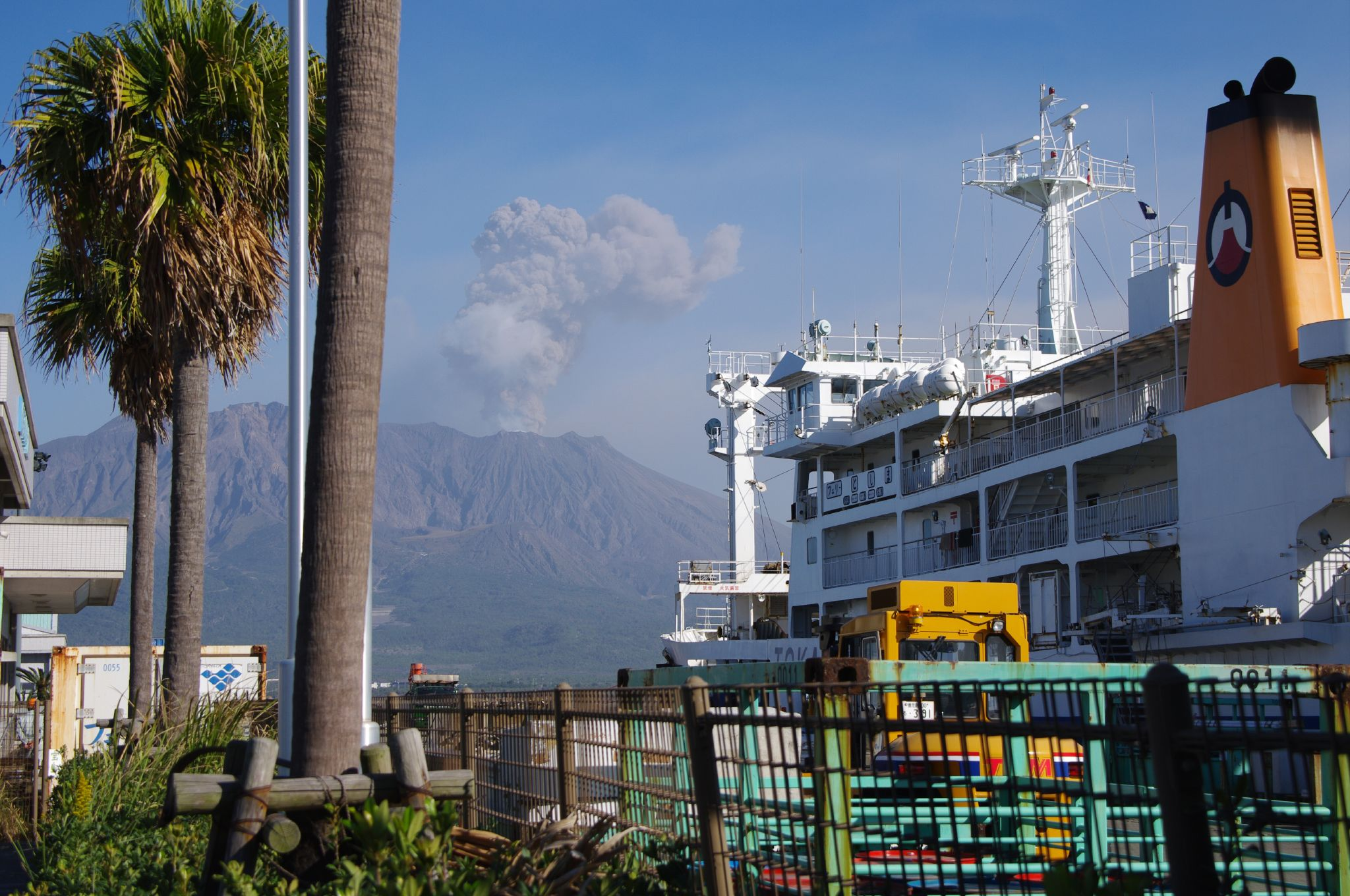 South Pier, Port of Kagoshima.